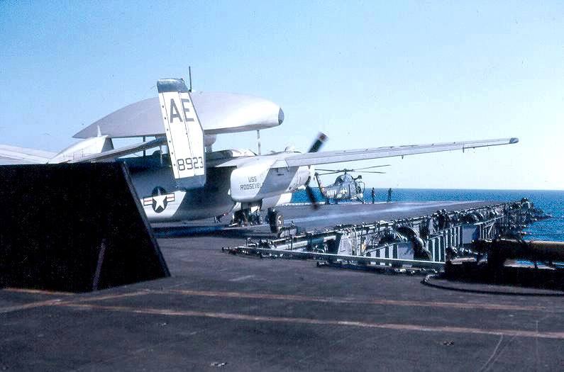 A U.S. Navy Grumman E-1B Tracer (BuNo 148923) of Carrier Airborne Early Warning Squadron 121 (VAW-121) Det.42 "Griffins" is about to launch from the starboard catapult of the aircraft carrier USS Franklin D. Roosevelt (CVA-42), in February 1970. VAW-121 Det.42 was assigned to Carrier Air Wing 6 (CVW-6) aboard the Franklin D. Roosevelt for a deployment to the Mediterranean Sea from 2 January to 27 July 1970. A Kaman UH-2A/B Seasprite of Helicopter Combat Support Squadron 2 (HC-2) Det.42 "Fleet Angels" is visible in the background.